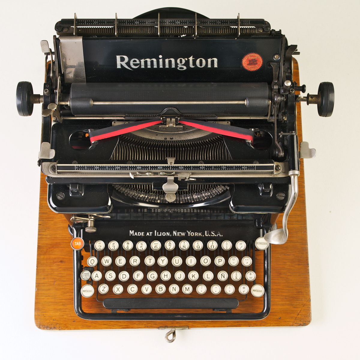 Máquina de escribir Remington